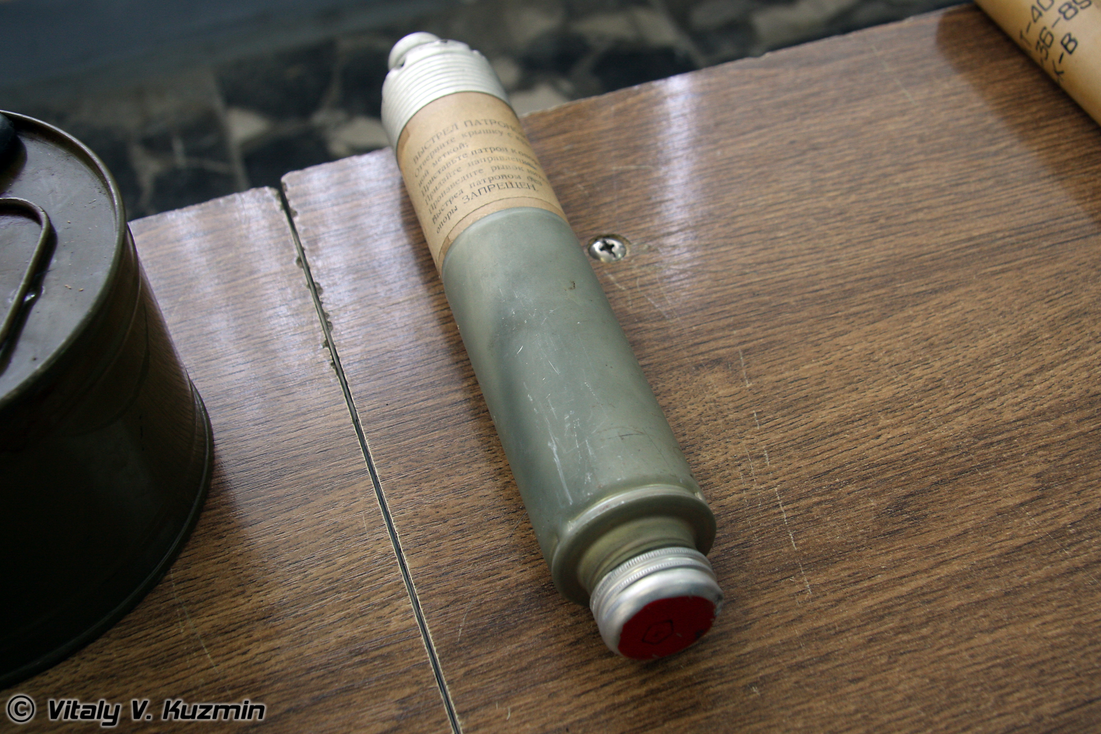 Incendiary smoke cartiridge